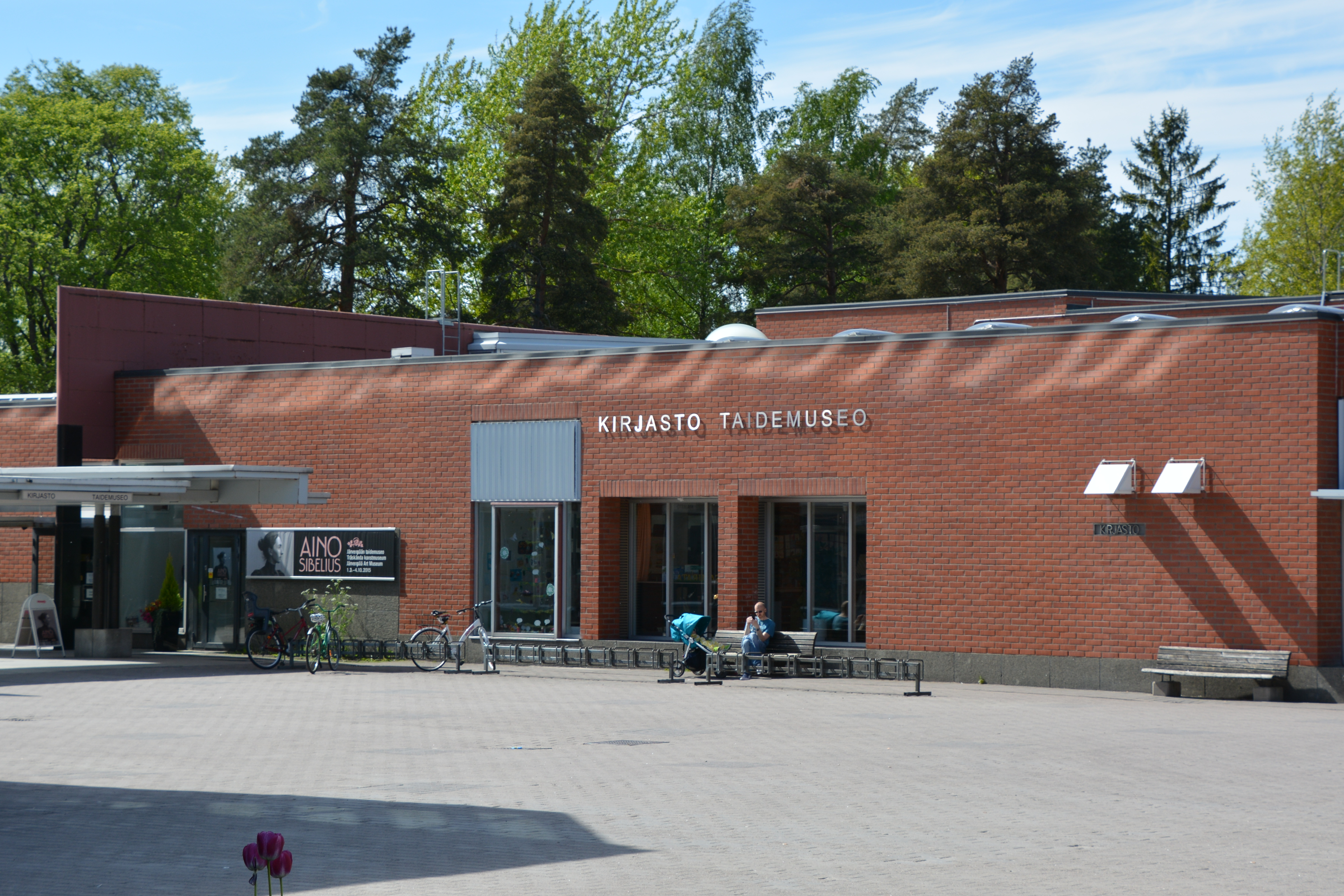 Järvenpää Art Museum, Järvenpää (Träskända), Finland